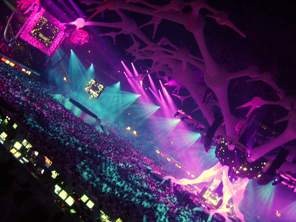 Sensation White New Year Edition - 2008 Silvester Show - LTU Arena, Düsseldorf, Germany